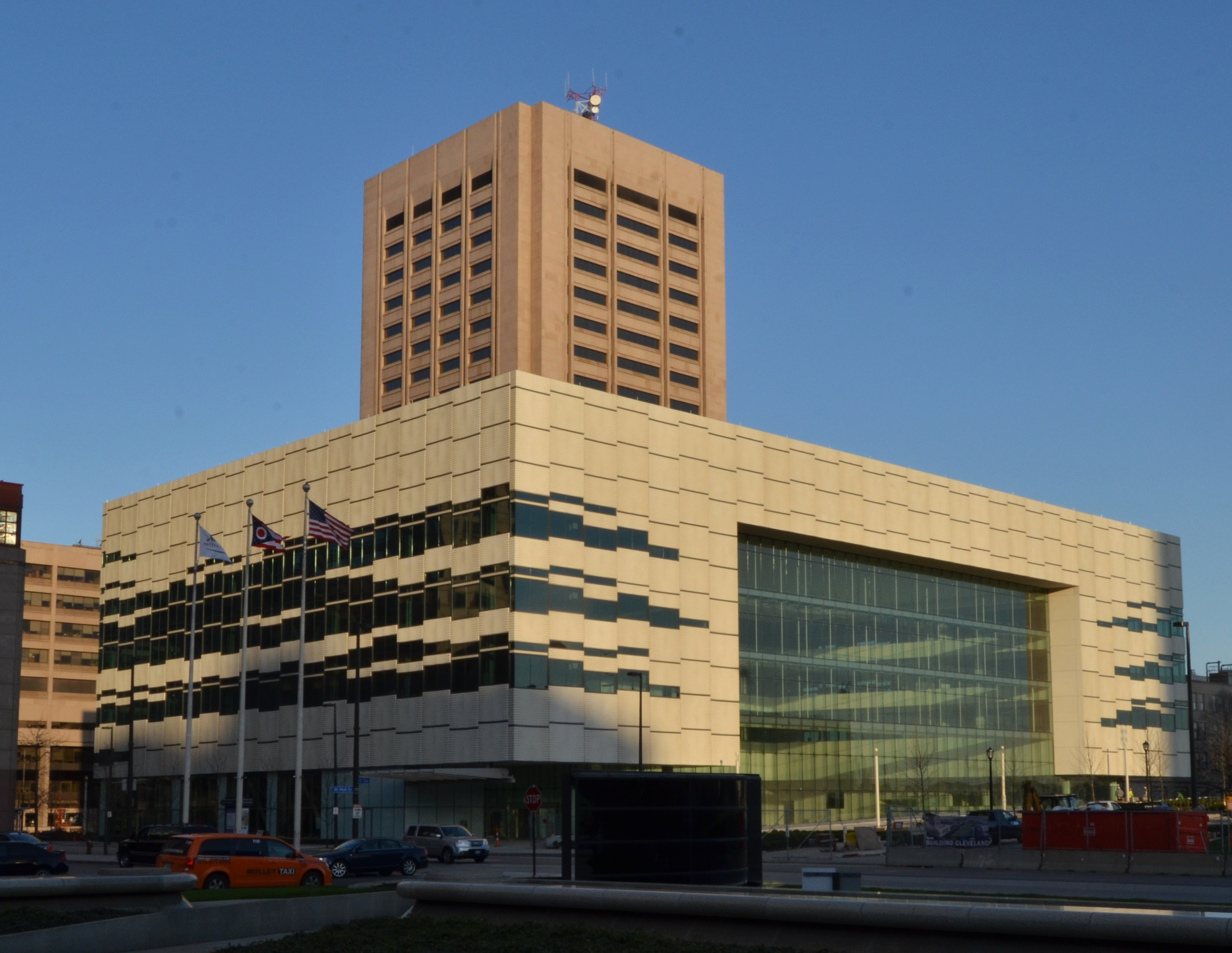 The downtown Cleveland building formerly known as the Medical Mart